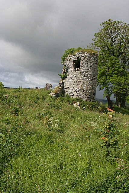 Pitlurg Castle One crumbling round tower is all that remains of this stronghold of the Gordons.